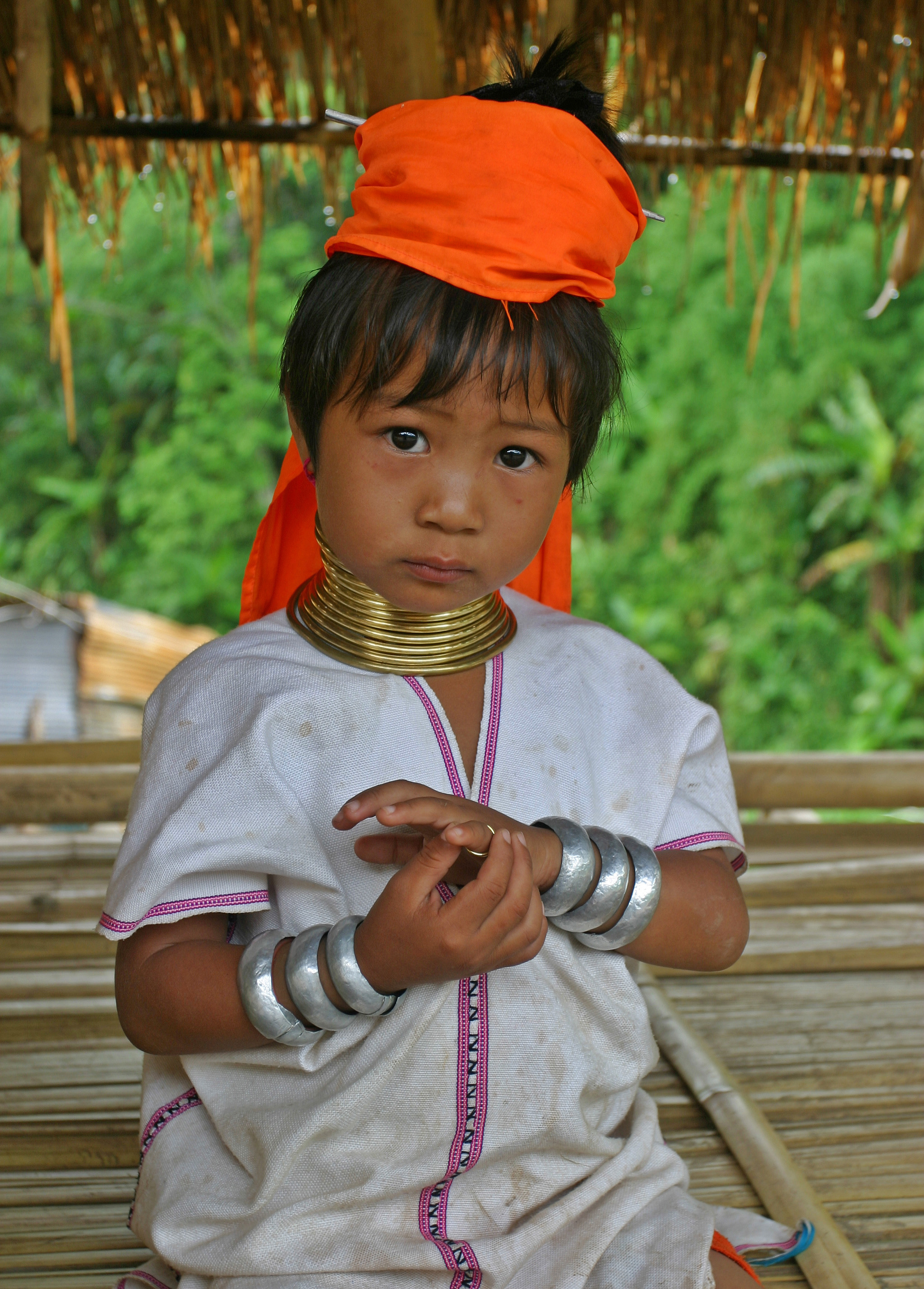 This is an image I photographed at a refugee camp in Northern Thailand of a young Kayan (or Padaung) hilltribe girl from Myanmar. I didn't originally intend to photograph her as I didn't want to appear insensitive and touristy. I tried to communicate with smiles and hand signals but her expression never wavered. She looked quite unhappy and at that point, I felt I had to capture this emotion. I took this photo with a Canon 10D and 17-40mm f/4L lens in June 2004.